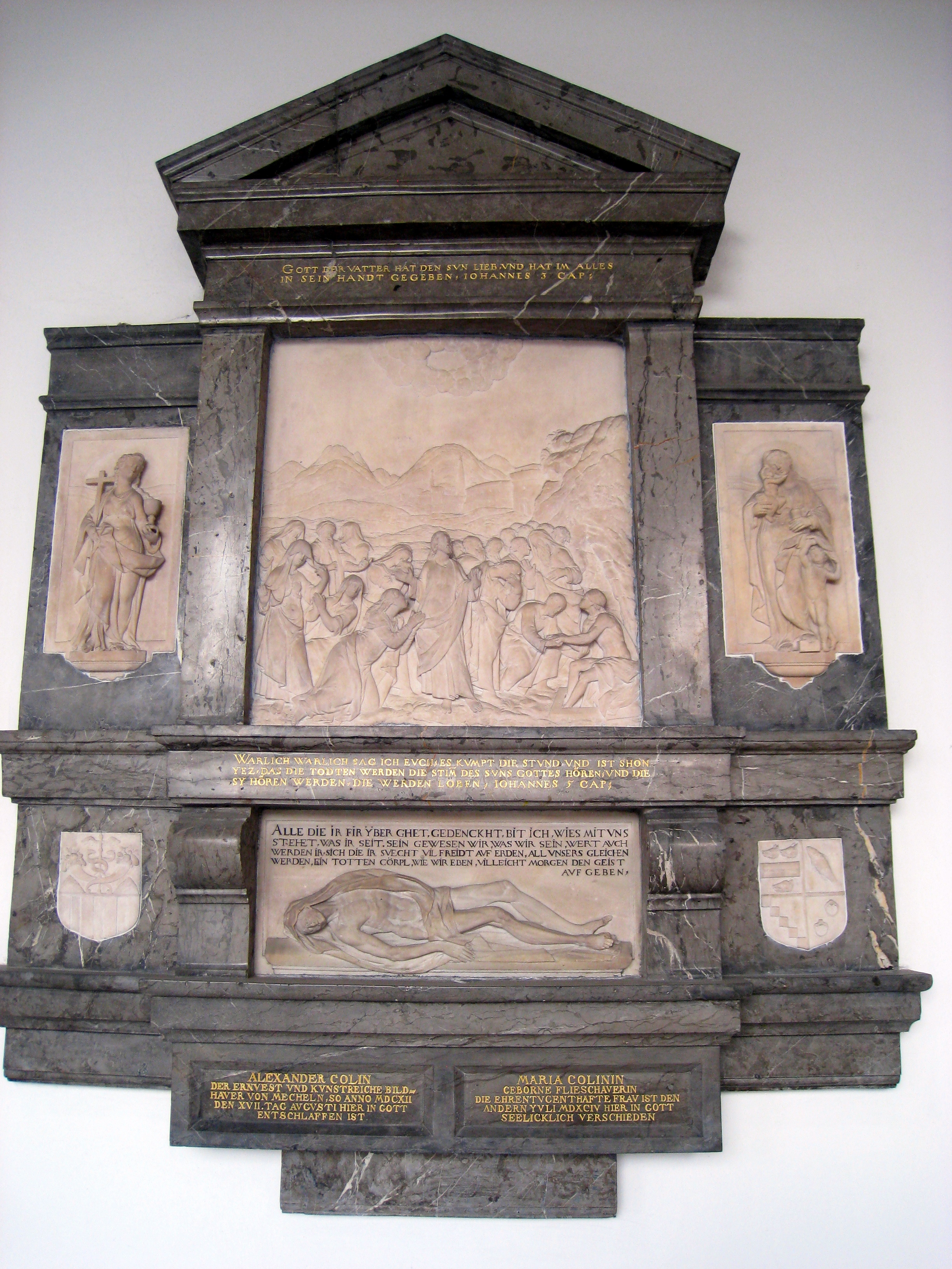 Hofkirche, Innsbruck, Austria. Epitaph for the renaissance sculptor Alexander Colyn and his wife Maria on the courtyard wall. Lazarus relief by one of his sons.